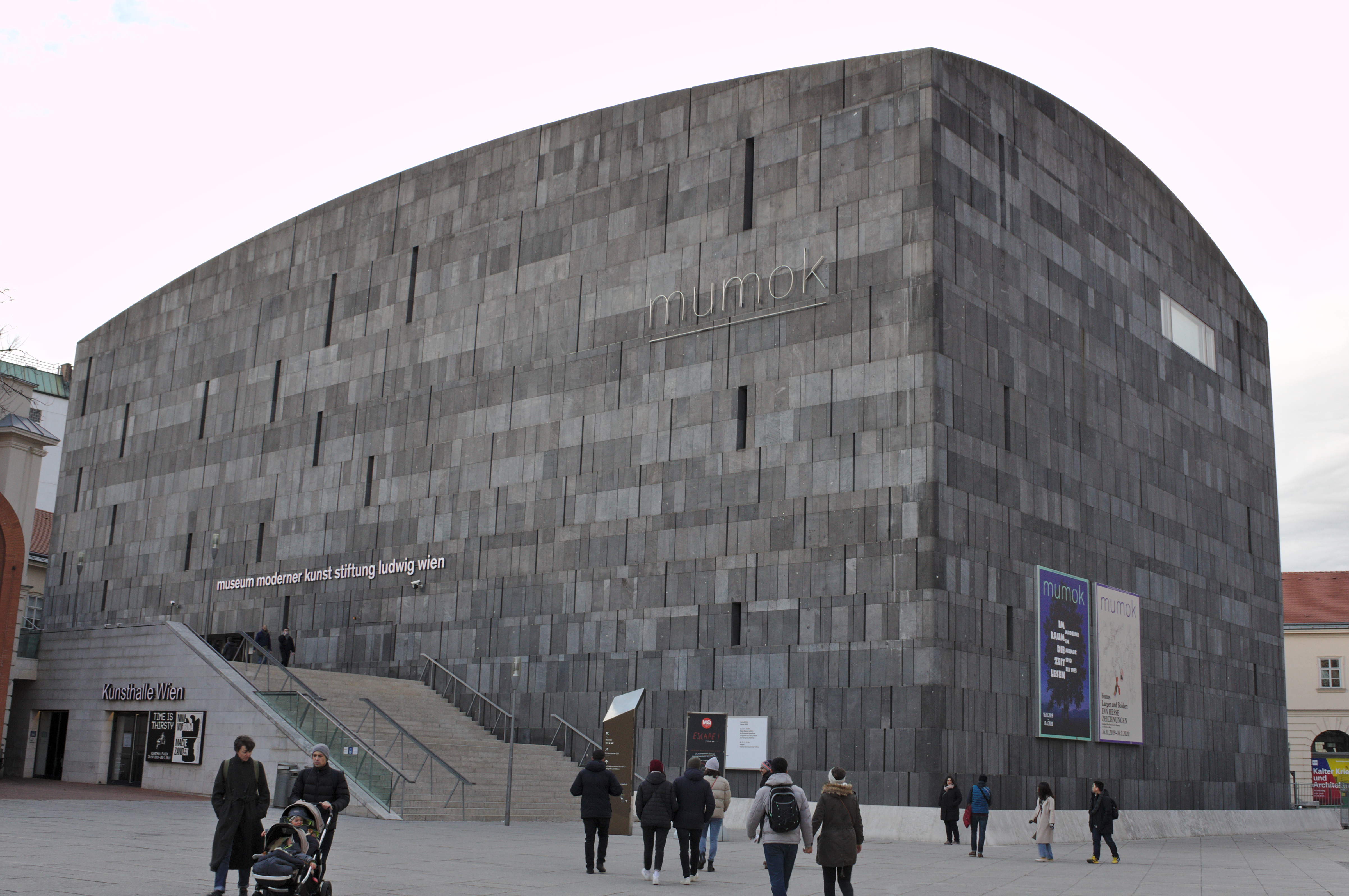 Museum Moderner Kunst Stiftung Ludwig Wien_Vienna_19-20